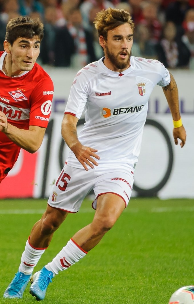 André Horta with SC Braga in an Europa League qualifying game against FC Spartak Moscow.